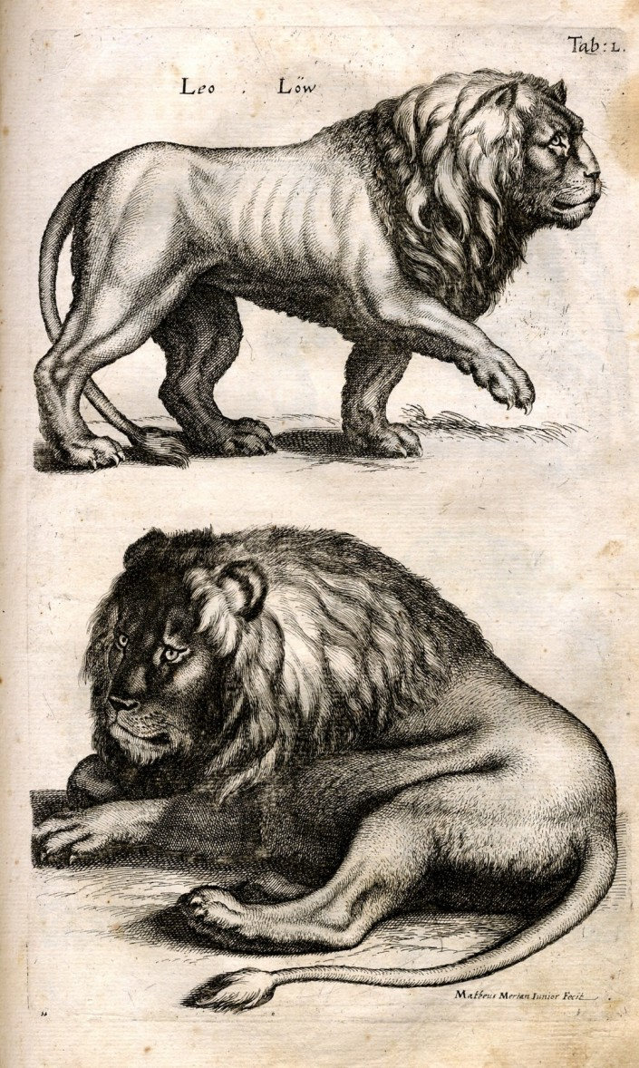 Illustration from "Historiae Naturalis De Quadrupedibus .. " by John Johnston. Lions.